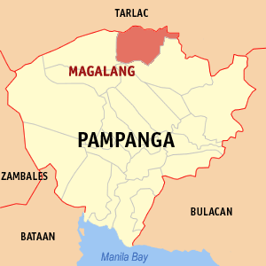 Map of Pampanga showing the location of Magalang